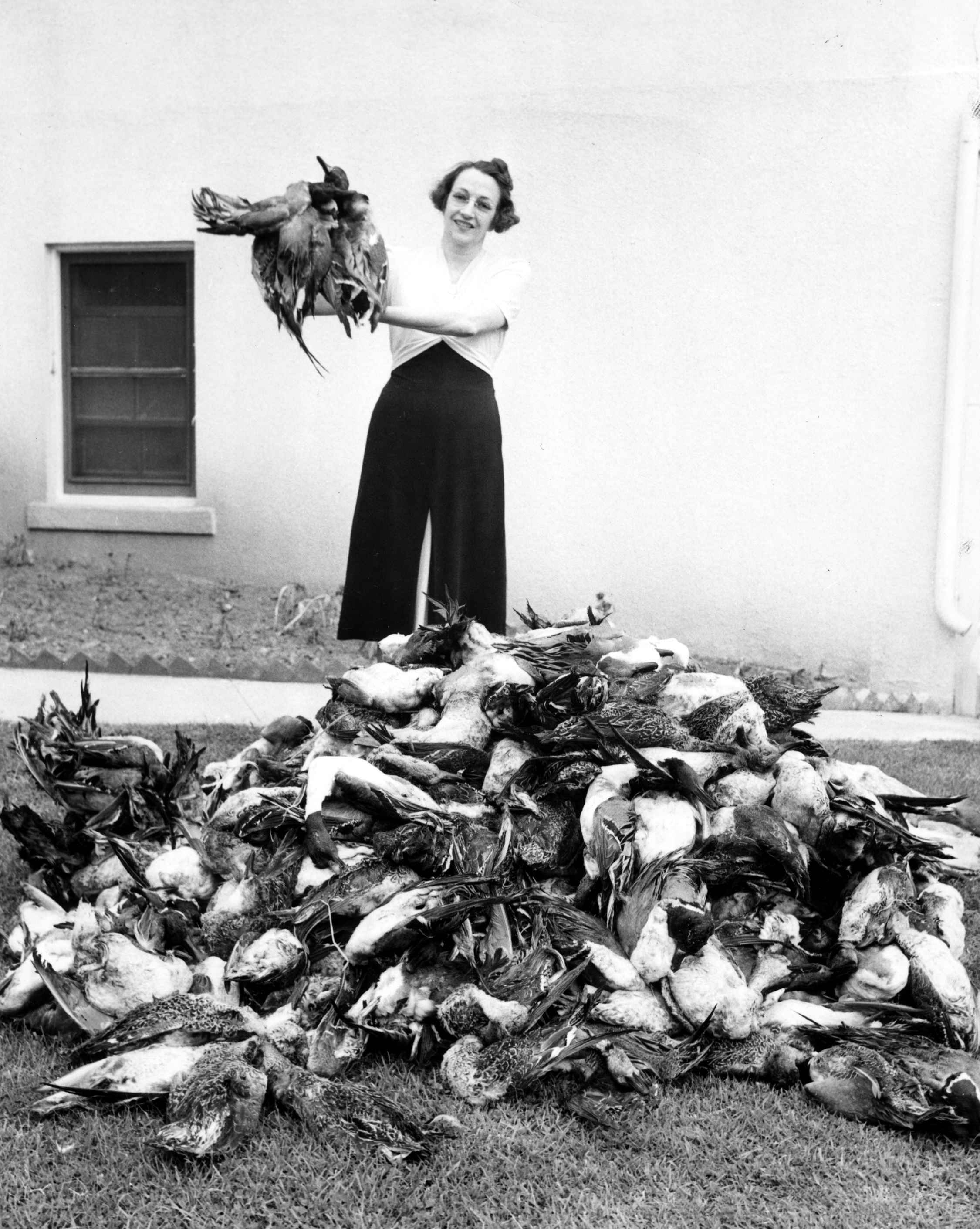 Image title: Mass hunting of waterfowl birds Image from Public domain images website